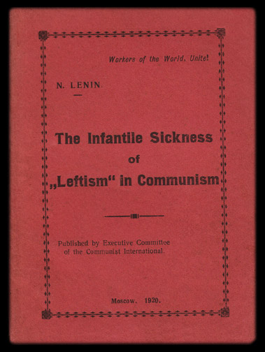 Cover of Lenin's "The Infantile Sickness of 'Leftism' in Communism." First English edition, published by the Executive Committee of the Communist International, 1920 Not copyrighted at time of publication. Published prior to 1923, public domain. Original in Tim Davenport collection, scanned by me for Wikipedia, no copyright claimed.